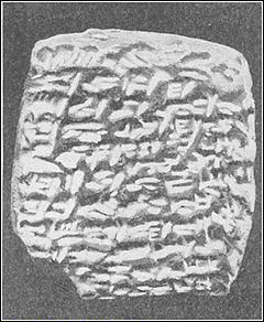 One of the Amarna Letters. From the 1905-1906 Jewish Encyclopedia. Category:Jewish Encyclopedia images Category:Akkadian literature Afbeelding:Amarna letter.jpg